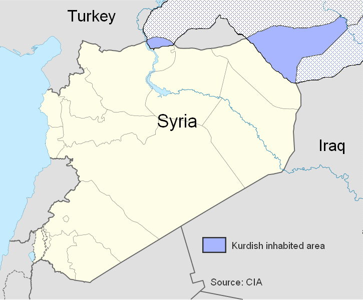 Map of Syrian Kurdish areas.